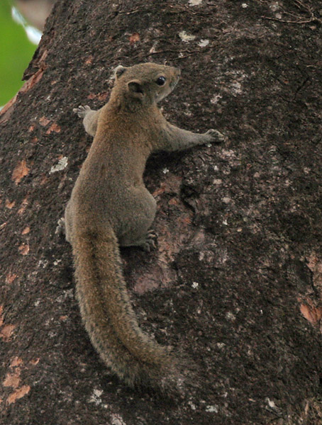 Hoary-bellied Squirrel at Jayanti in Buxa Tiger Reserve in Jalpaiguri district of West Bengal, India.